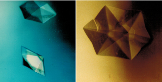 At left are hexagonal by-pyramidal crystals of turnip yellow mosaic virus (TYMV). Note the flat faces of the crystals. At right are crystals of the same virus grown in microgravity. Because of diffusion limited transport of nutrient under μg conditions, the faces are strikingly creased and the edges indented. Crystals were grown in the Advanced Protein Crystallization Facility (APCF) on IML-2. IML-2, International Microgravity Laboratory-2.